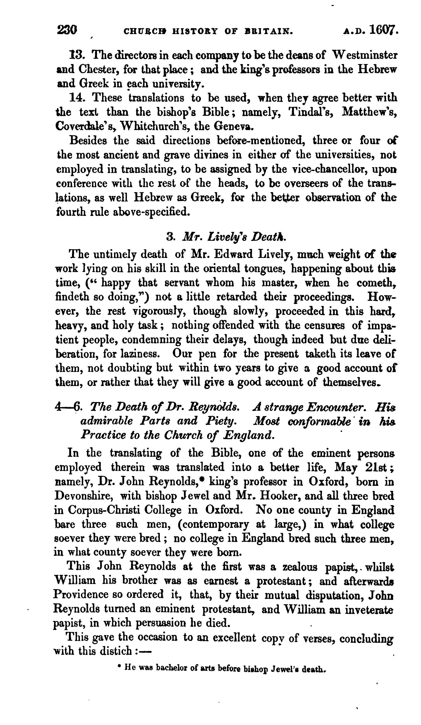 The circumstances and those present at Dr John Rainolds' death.